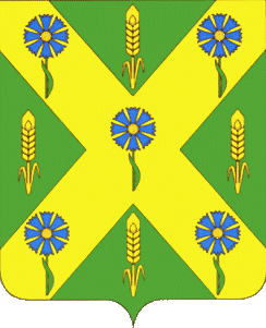 Coat of arms of Novosilsky rayon, Oryol Region, Russia